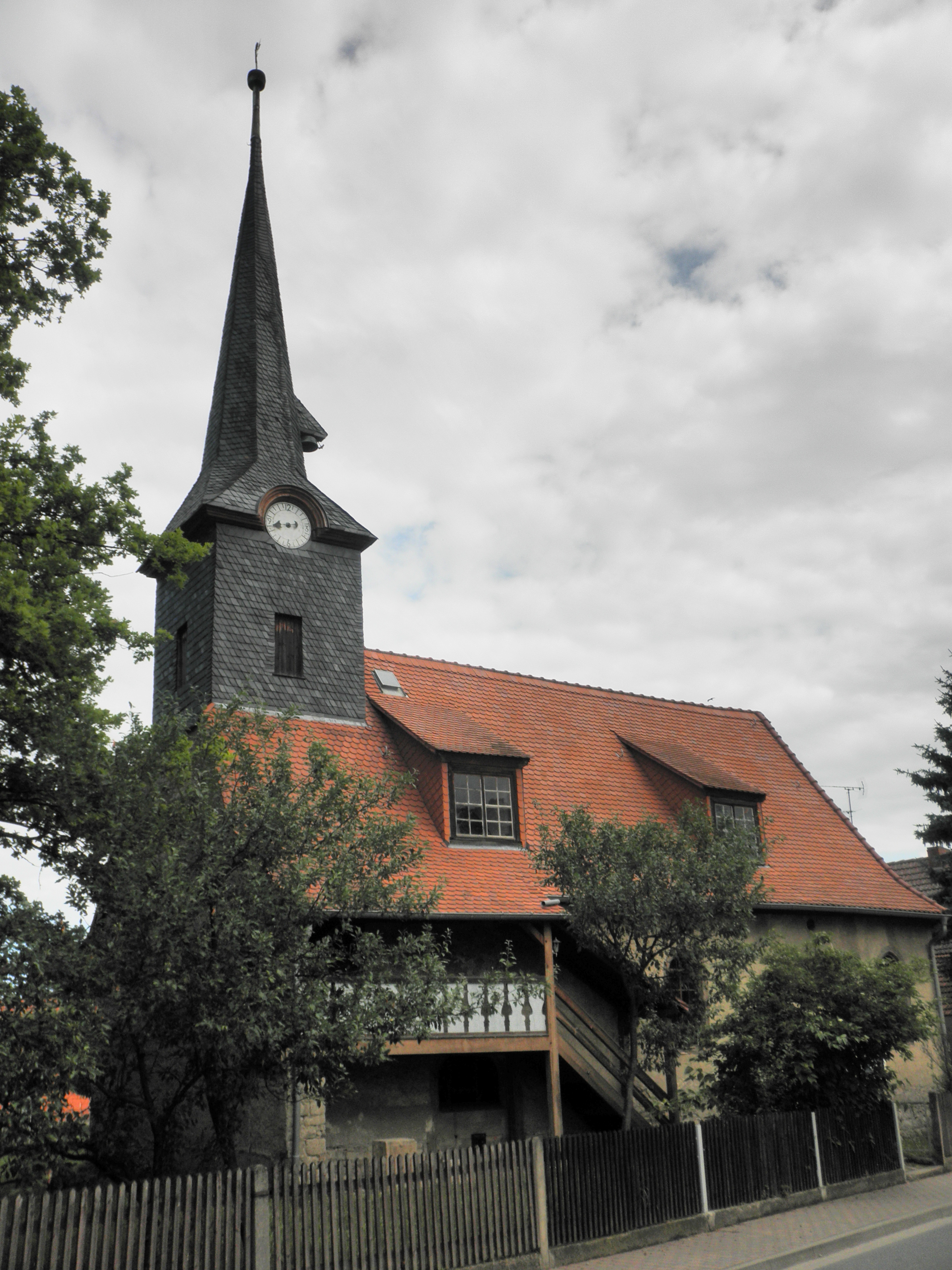 Church in Schwansee (Großrudestedt)